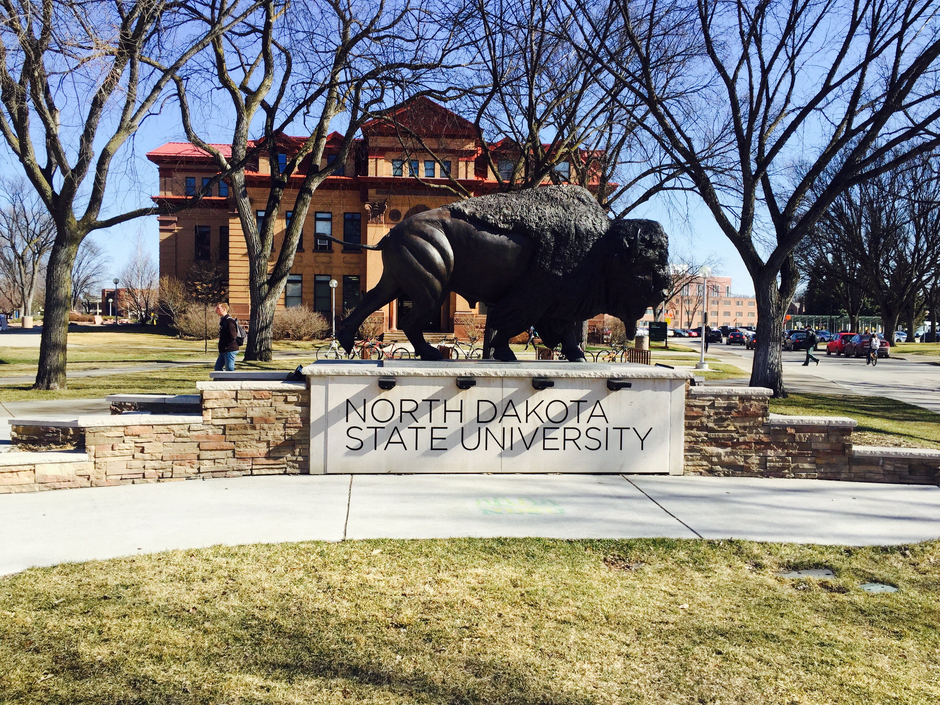 One of North Dakota State University's main iconic images welcomes you to their campus.